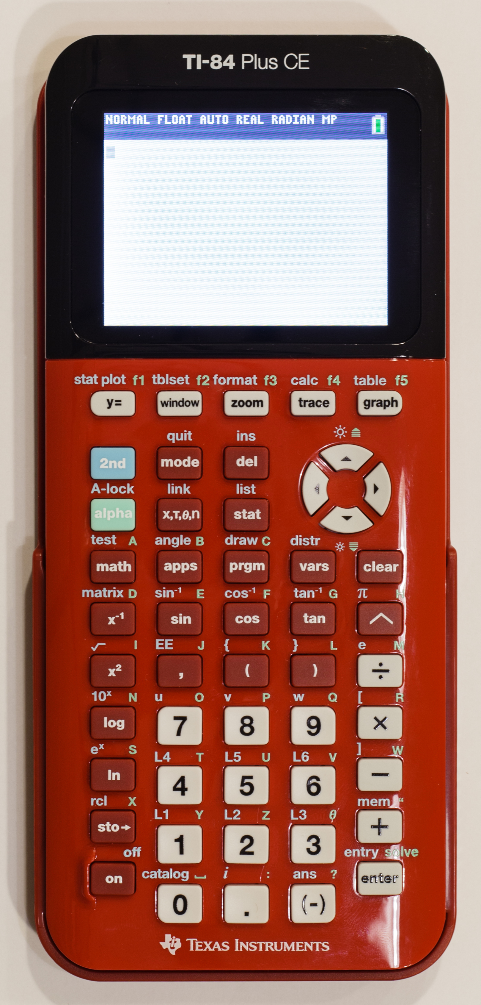 An early red TI-84 Plus CE.